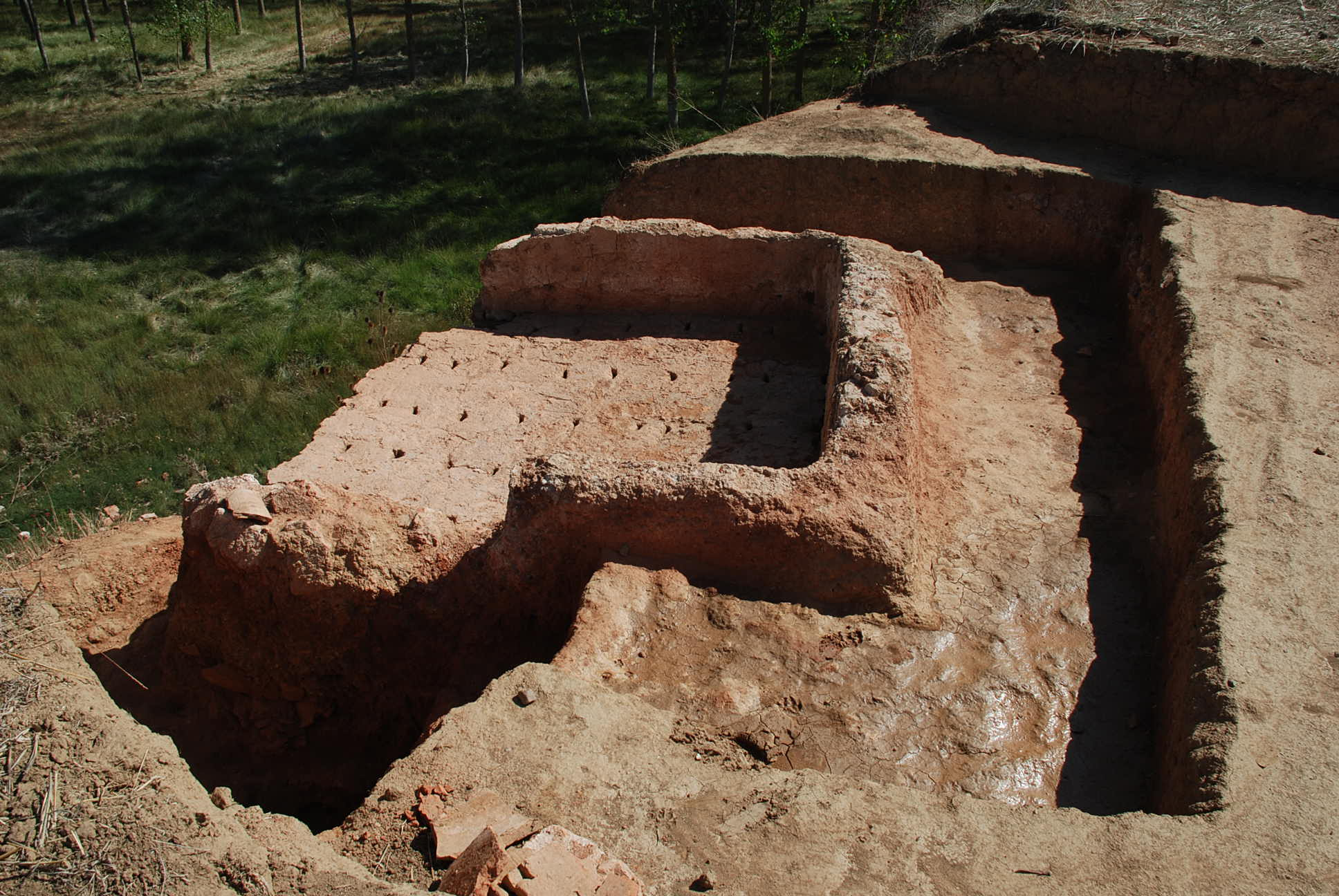 Archaeological excavation of urgency of the Roman kiln found in Abia de las Torres (Palencia, Castile and León). This is a unique example of High roman empire kiln in the North plateau.